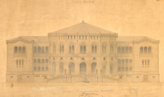 Emil Victor Langlet's propsal for the Parliament of Norway Building in the 1856 competition. It was chosen and built.